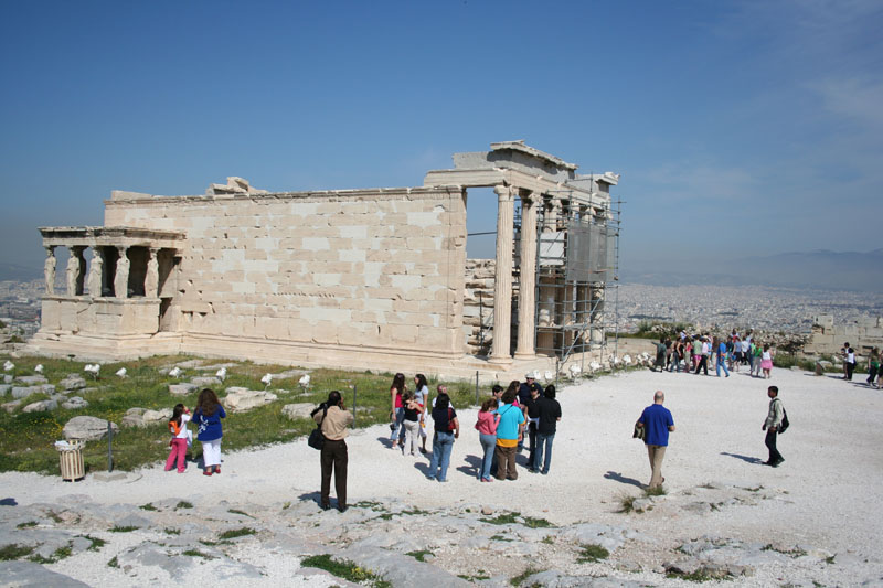 Caryatids tomb